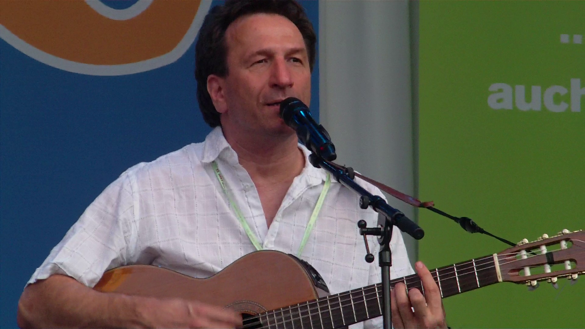 Clemens Bittlinger (Protestant minister, author of books, song writer of many new sacred songs and children songs) performing at the German Evangelical Church Congress in Dresden (June 2011)